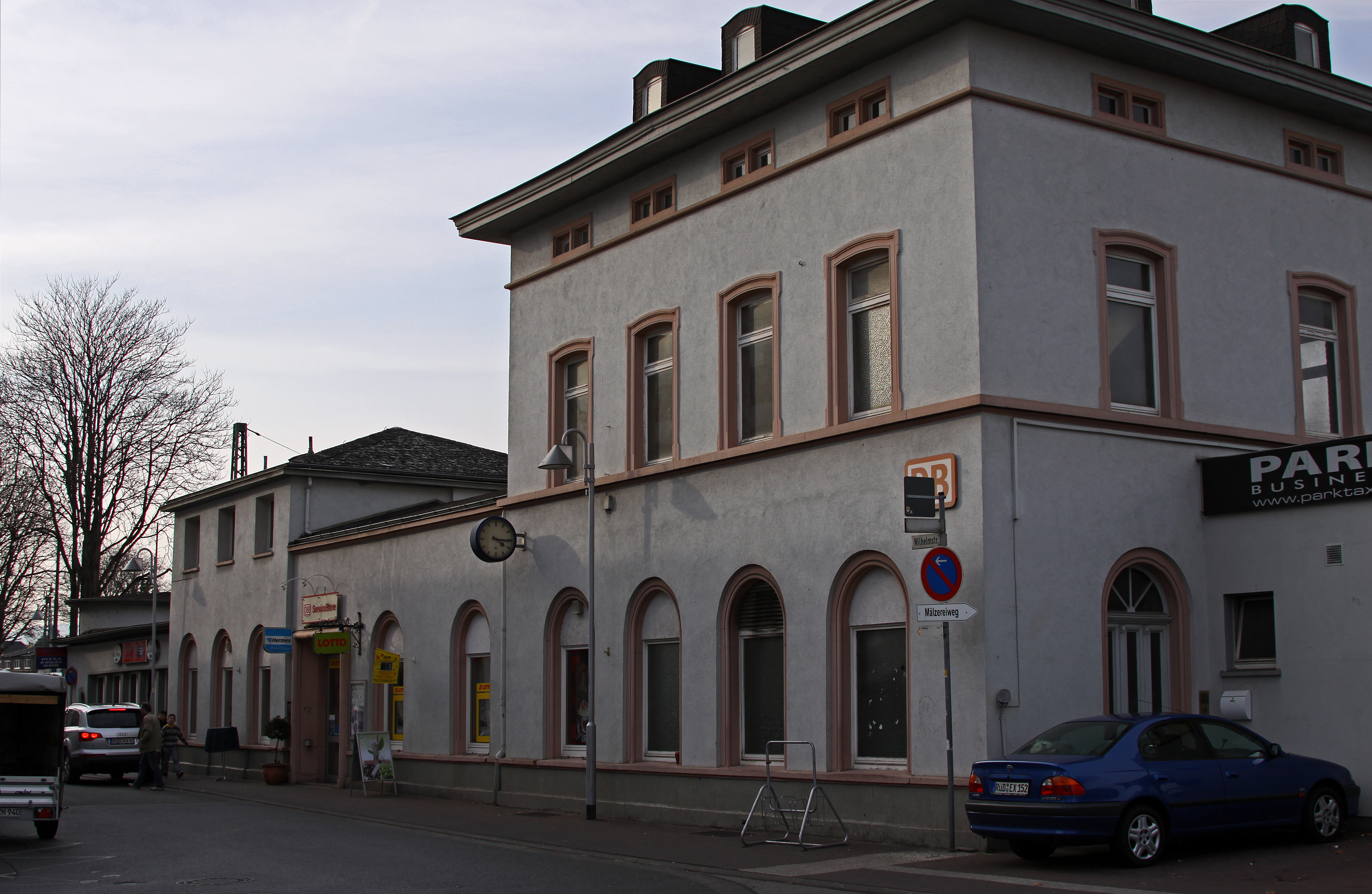 The railway sation in Eltville seen from the street side.